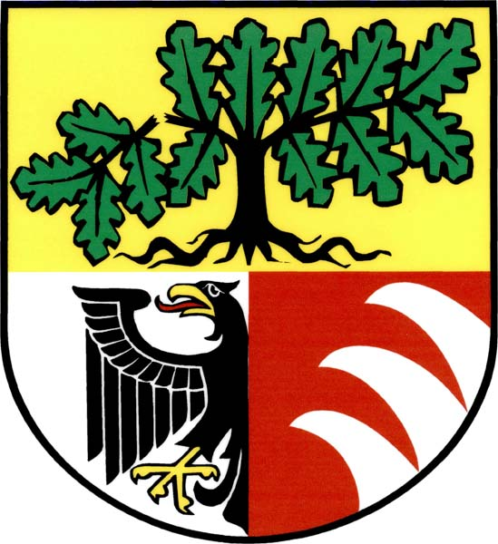 Municipal coat of arms of Doubice village, Děčín District, Czech Republic.